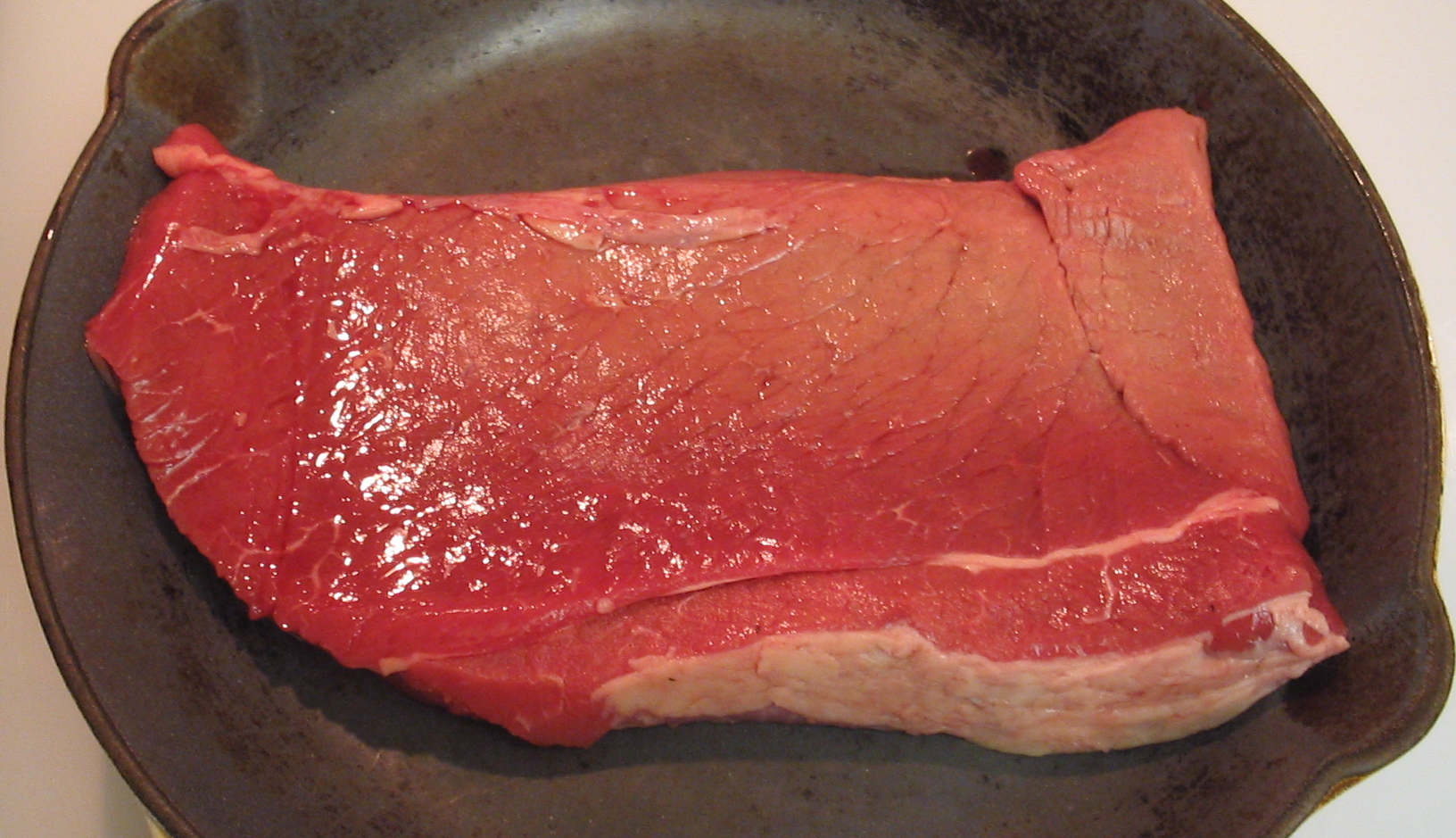 The same steak in its packaging. A raw round steak in a pan. David Benbennick took this photo on August 6, 2005 at 6:37 PM (August 7 00:37 UTC).